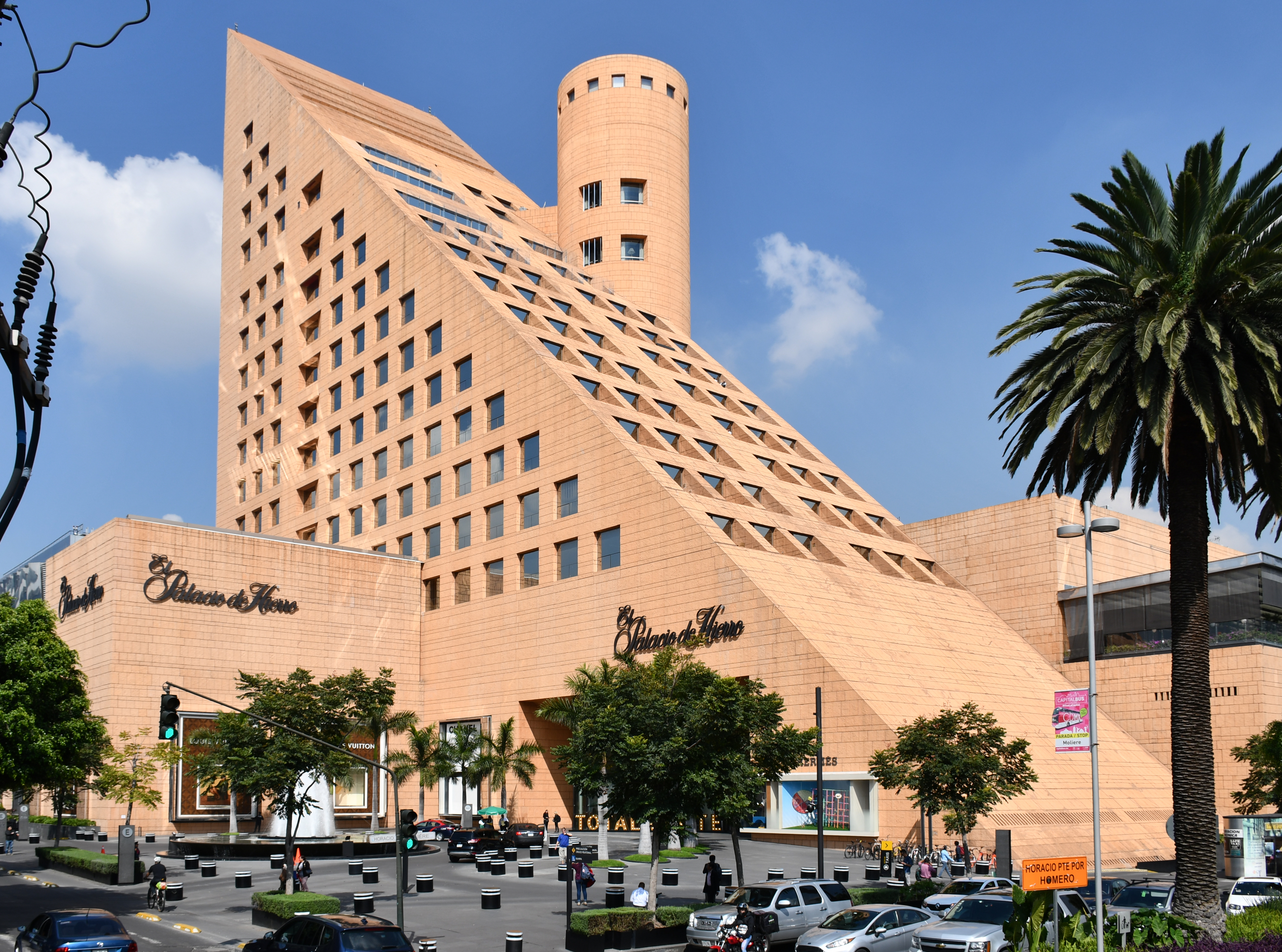 The shopping mall El Palacio de Hierro (Polanco neighborhood, city of Mexico).